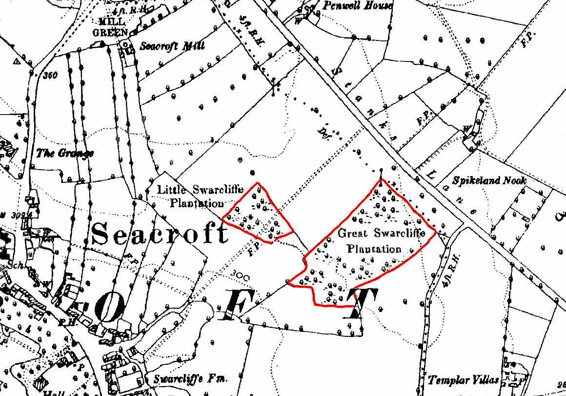 A map of Seacroft